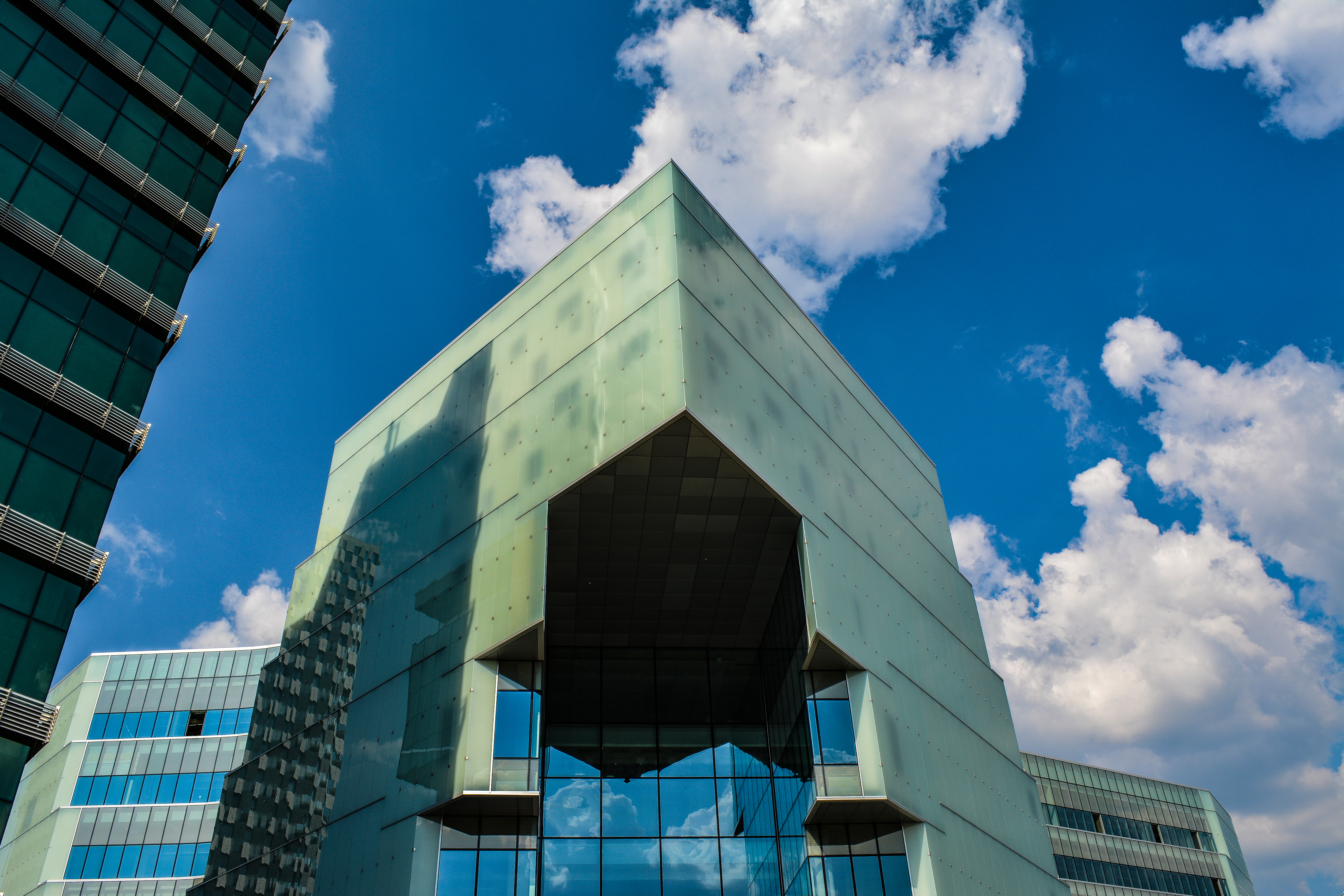 Toptani Shopping Center in Tirana finished